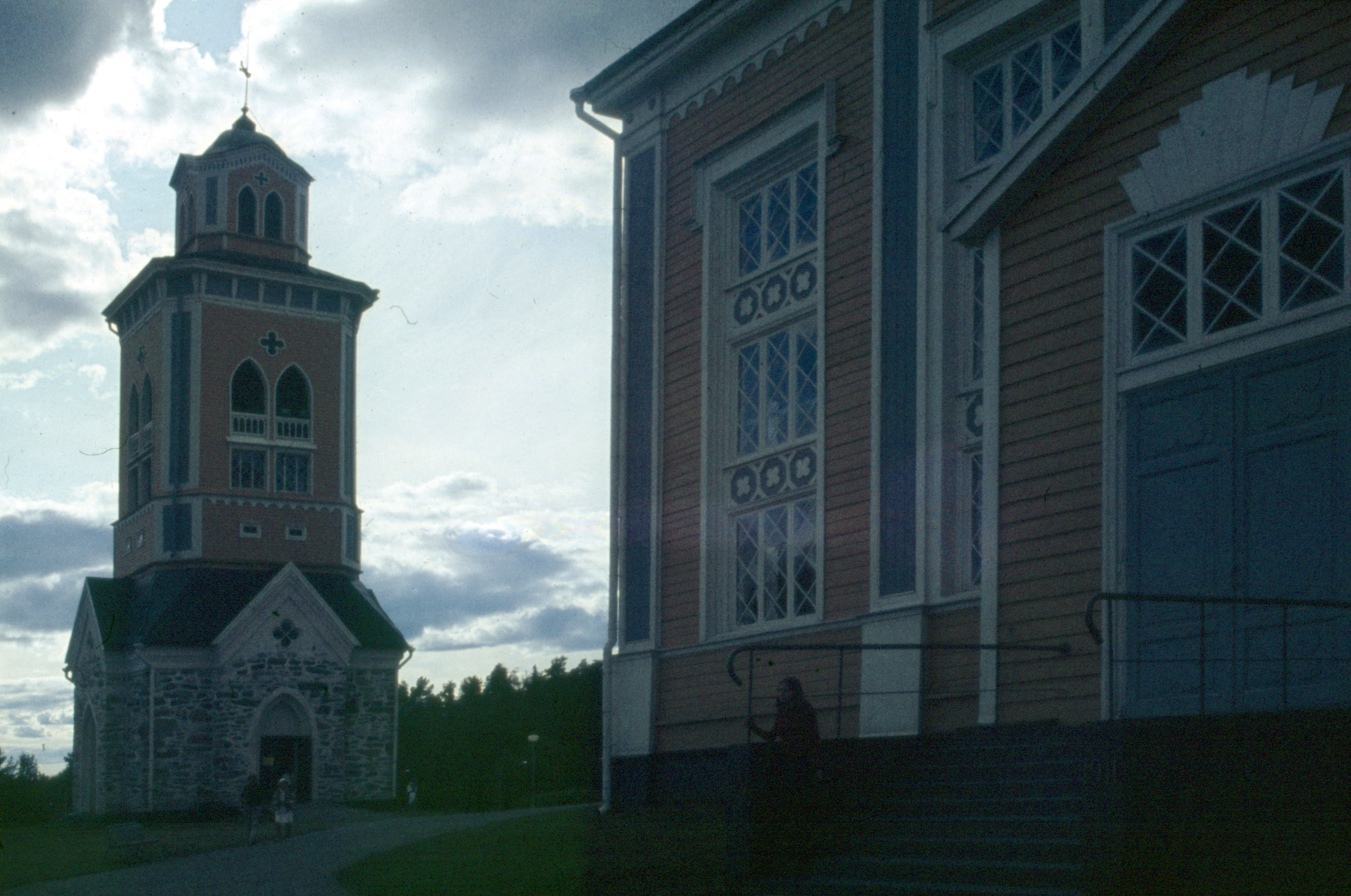 Kerimäki in Finland 1975